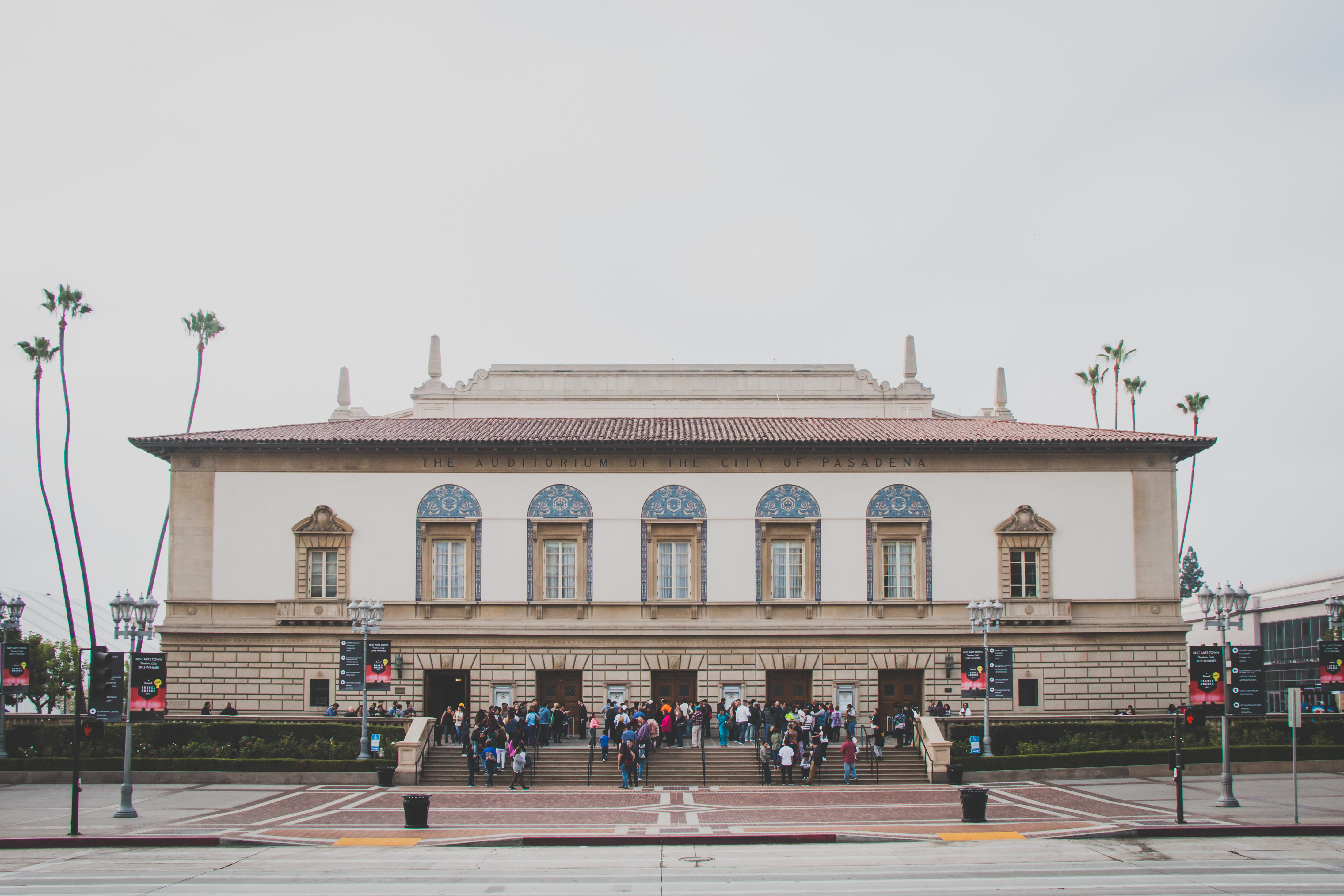 The 3,029 seat historic Pasadena Civic Auditorium built in 1931. It is a part of the Pasadena Convention Center complex, which includes the refurbished Conference Building. The expanded center includes 55,000 square feet of new exhibit space and a 25,000 square foot ballroom, opened on March 1, 2009.